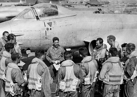 Pilots of 77 Squadron RAAF, being briefed by their Commanding Officer, Squadron Leader Richard (Dick) Cresswell (centre, facing camera), on the Kimpo airfield tarmac in front Meteor aircraft A77-616, prior to a mission over North Korea. Around the semicircle, left to right: Flight Lieutenant (Flt Lt) Colin Ian 'Joe' Hill , RAF; Flt Lt Maxwell (Max) Scannell, RAF; Sergeant Ronald Daniel Mitchell; Sergeant (Sgt) Keith Raymond Meggs; Sgt Cecil (Cec) Sly; Warrant Officer (WO) William Stapylton (Bill) Michelson; Flying Officer Leslie (Les) Reading; Sgt Henry William 'Dick' Bessell; Flt Lt Ralph Leslie 'Smokey' Dawson; WO Wiliam (Bill) Middlemiss; Sgt Maxwell Edwin 'Blue' Colebrook; and Flt Lt Cornelious Desmond (Des) Murphy (last in semicircle on right). Sgt Mitchell was killed in action on 22 August 1951. Sgt Colebrook was later killed in action on 13 April 1952.